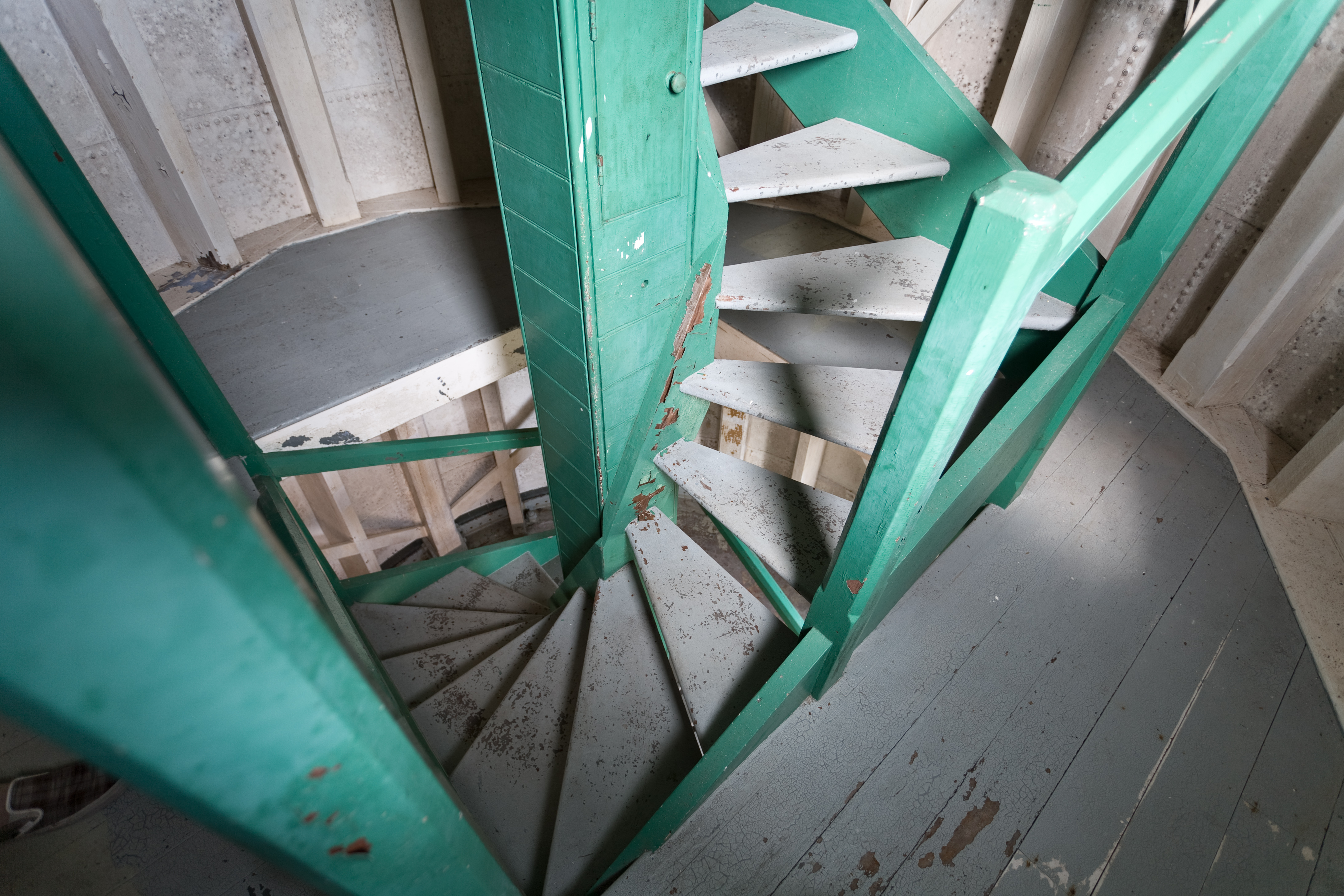 Interior of the Lady Elliot Island lighthouse tower built in 1873. The view is from the first level above the ground. The winding timber stairs are supported by the timber weight tube in the centre. Note the timber tower frame members, attached to the concrete base by a cast iron ring, just visible at the bottom of the stairs. Also note the external cladding of curved wrought iron plates fastened together with rivets and attached to the timber frame with screws.